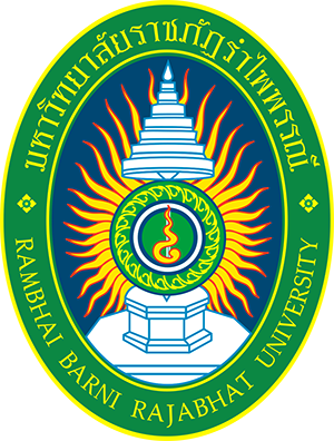 (Rambhai Barni Rajabhat University)